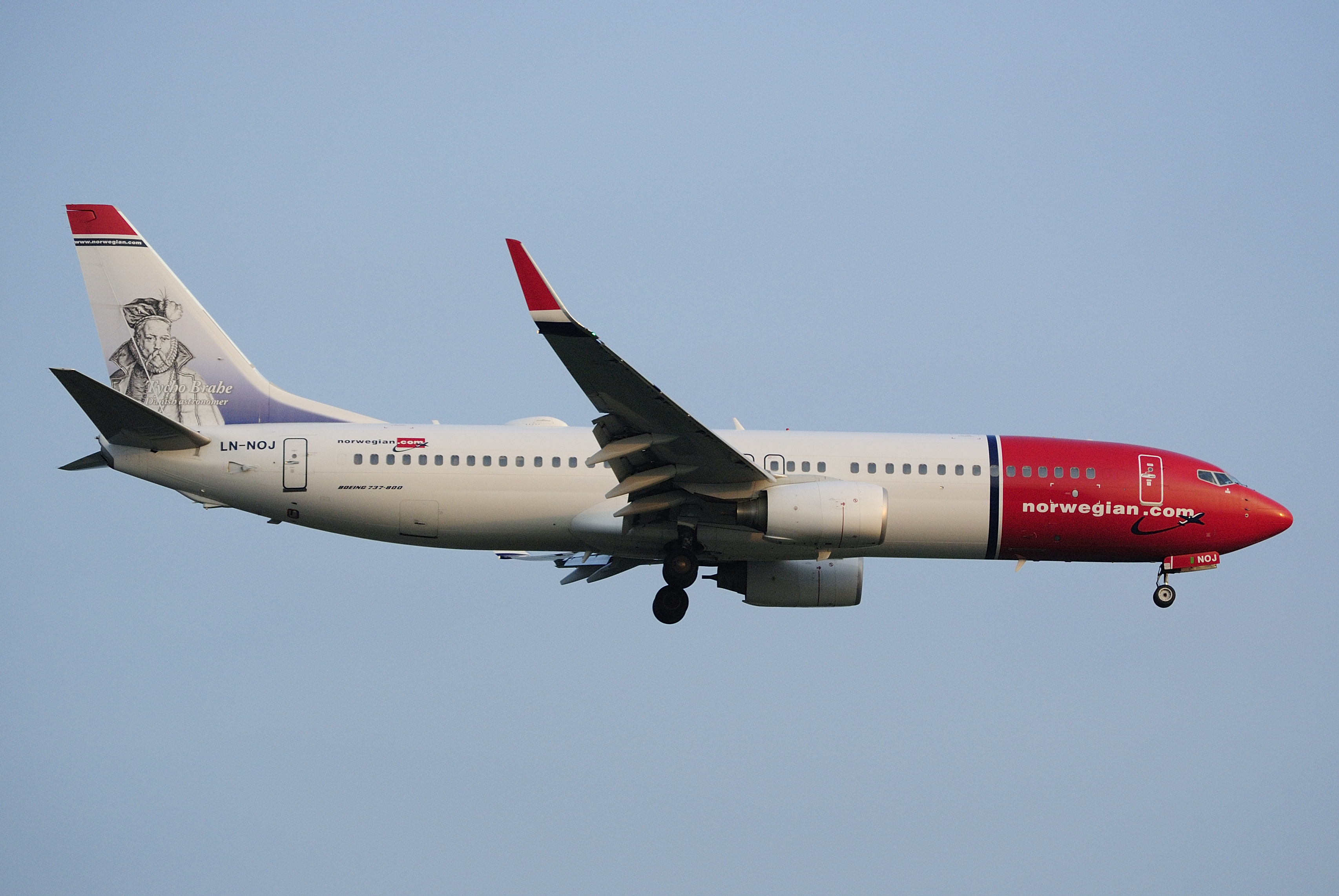 Boeing 737-800 of Norwegian at London Gatwick Airport